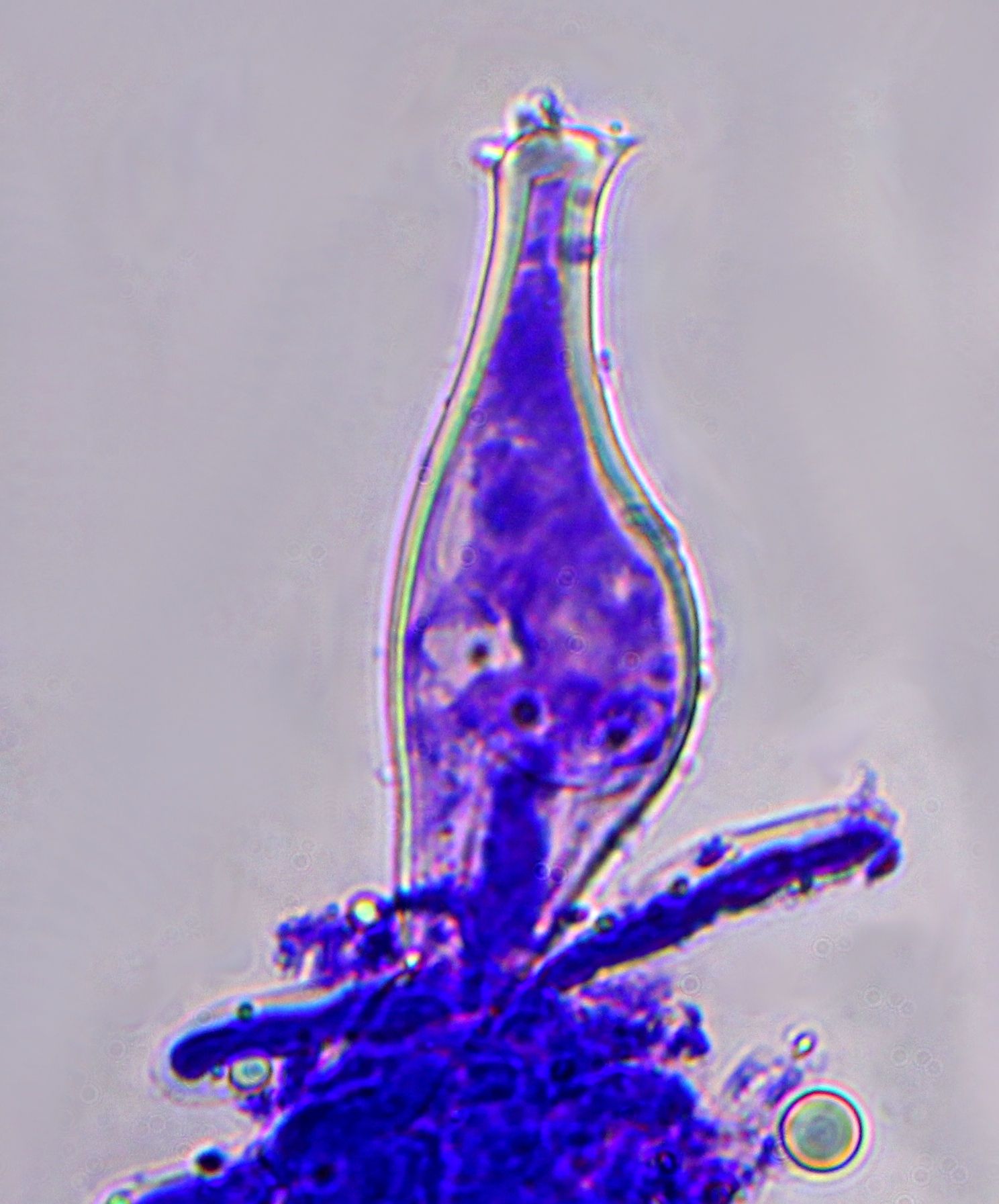 Pluteus cervinus: Lamellar cystidia with apical projections 400x, stained with crystal violet This image is Image Number 312712 at Mushroom Observer, a source for mycological images. This tag does not indicate the copyright status of the attached work. A normal copyright tag is still required. See Commons:Licensing.